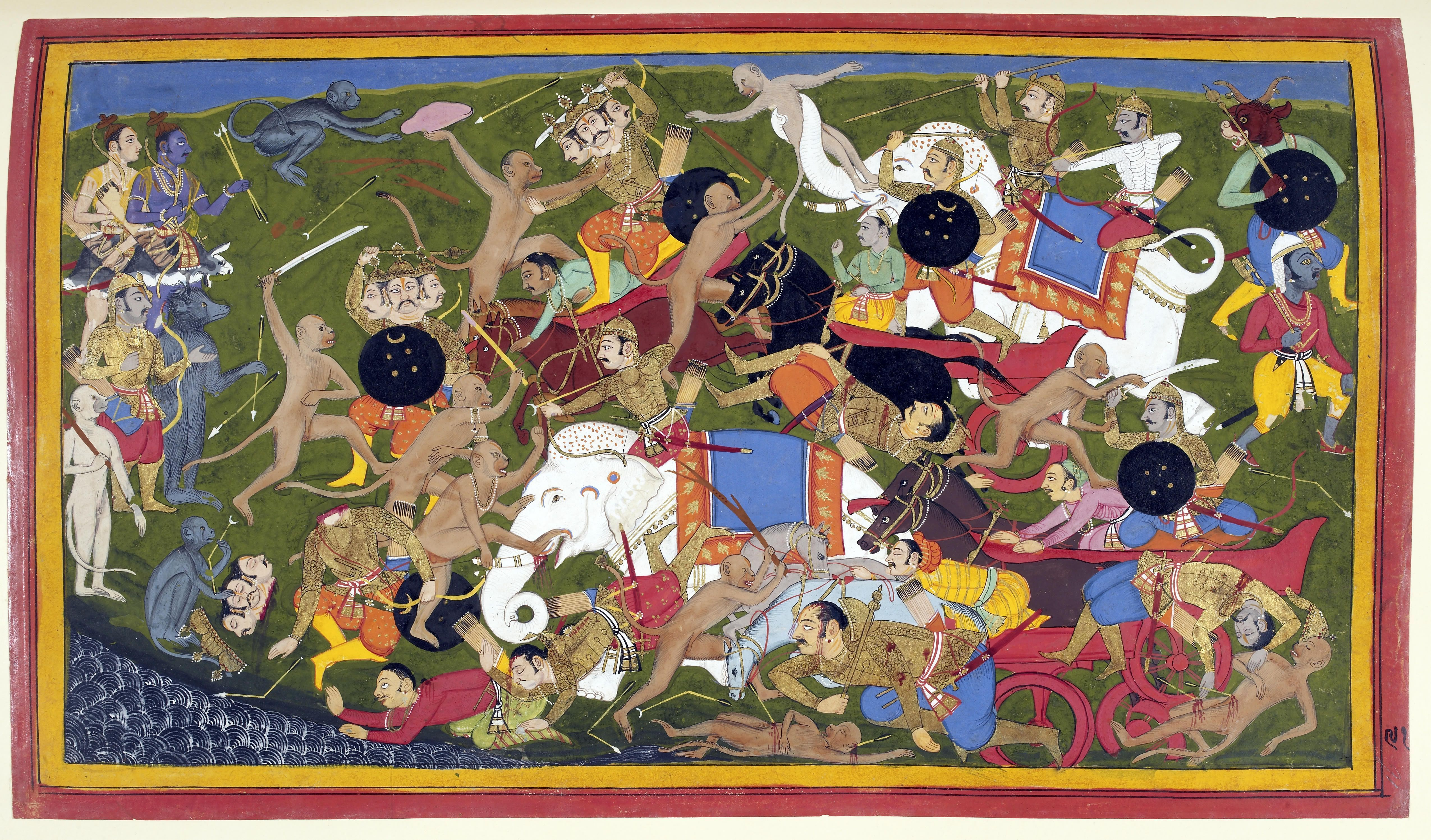 Battle at Lanka, Ramayana, by Sahib Din. Battle between the armies of Rama and the King of Lanka. Udaipur, 1649-1653. "Sahib Din's illustration shows in grisly detail a fierce landmark battle. It takes place between Rama's army of monkeys and the King of Lanka's army of demons, as Rama (together with the only other human, his brother Lakshmana) fights to free Rama's kidnapped wife Princess Sita. Following a gruesome series of hand-to-hand combats, the fortitude of Rama's monkey army wins through. The illustration is not a 'single frame', but shows several stages of the battle alongside each other. For example, in this scene of battle between the demons and Rama's monkey army, the three-headed figure of the demon general Trisiras occurs in several places – perhaps most dramatically at the bottom left, where he is shown beheaded by Hanuman. The ultimately victorious Rama is shown at the top left, splendidly coloured in blue, calmly contemplating the carnage."